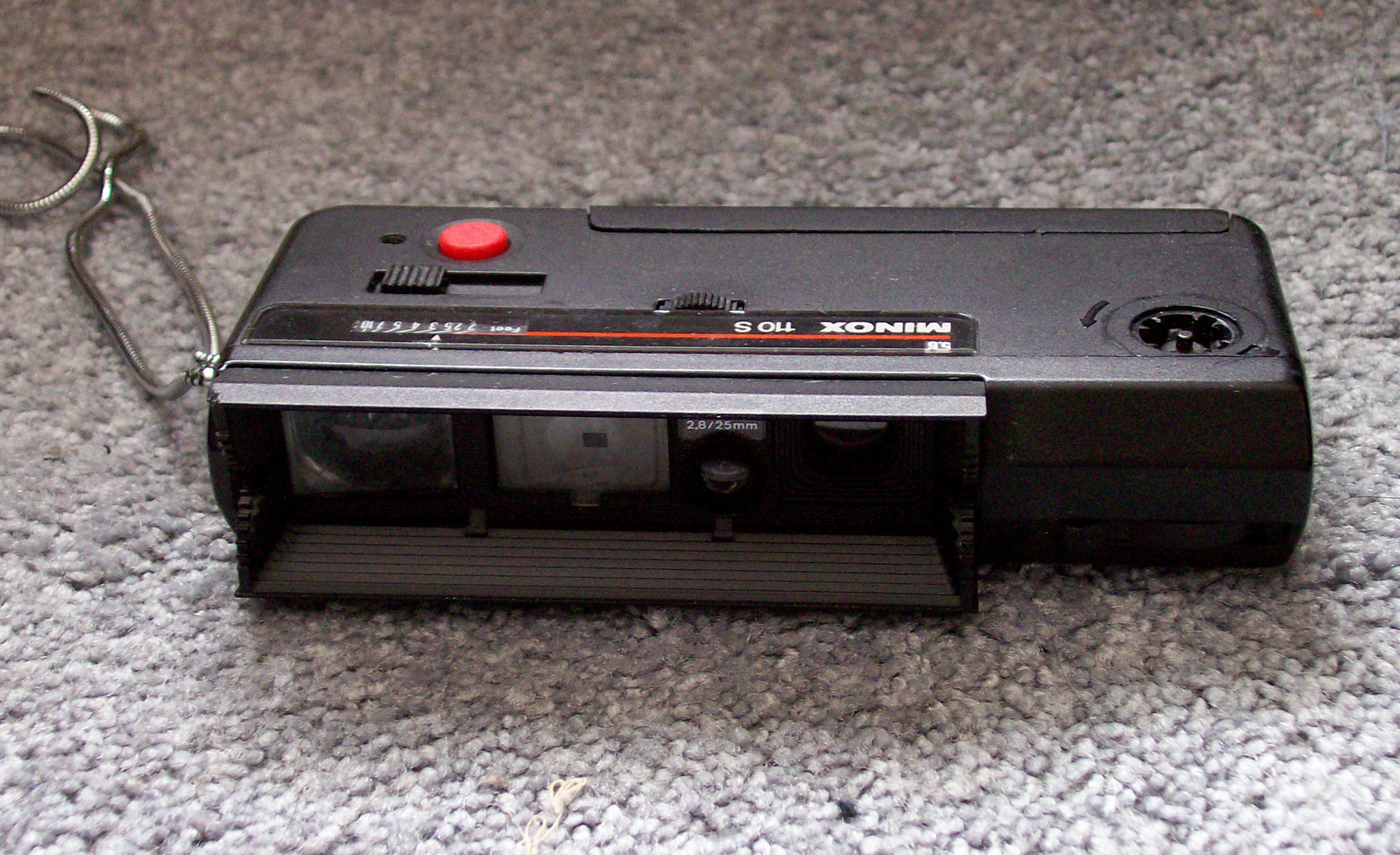 Minox 110S rangefinder camera